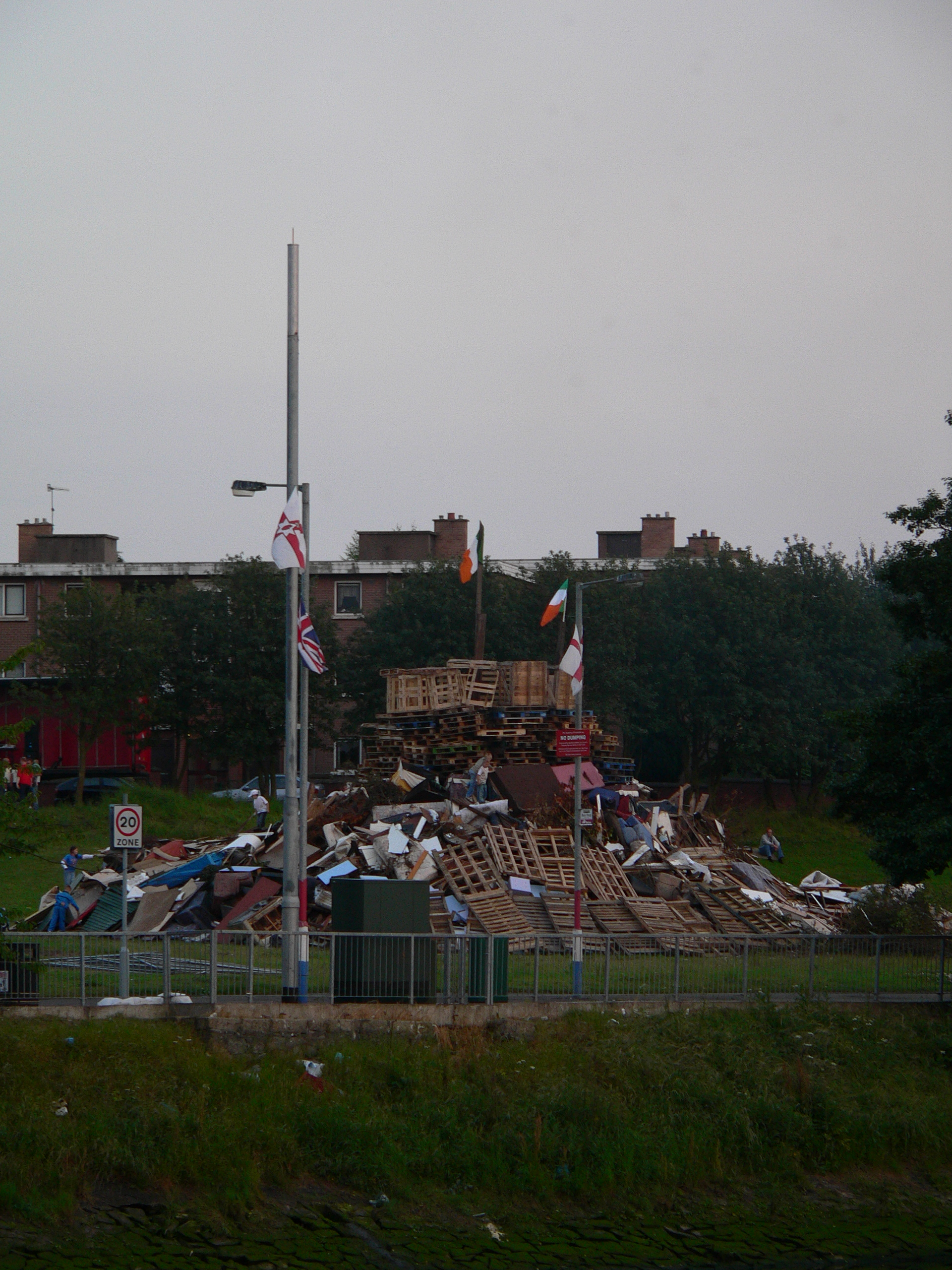 Bonfire on a loyalist housing estate in Belfast with Irish tricolours on top